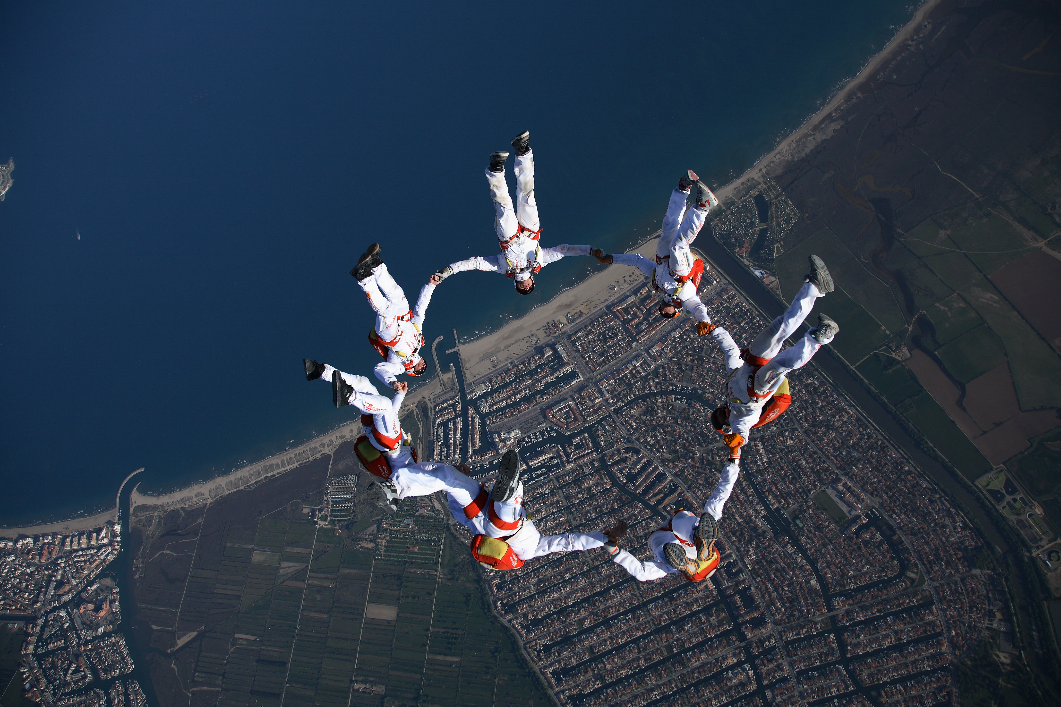 Babylon Freefly has been at the forefront of group flying since it was officially founded in 1998